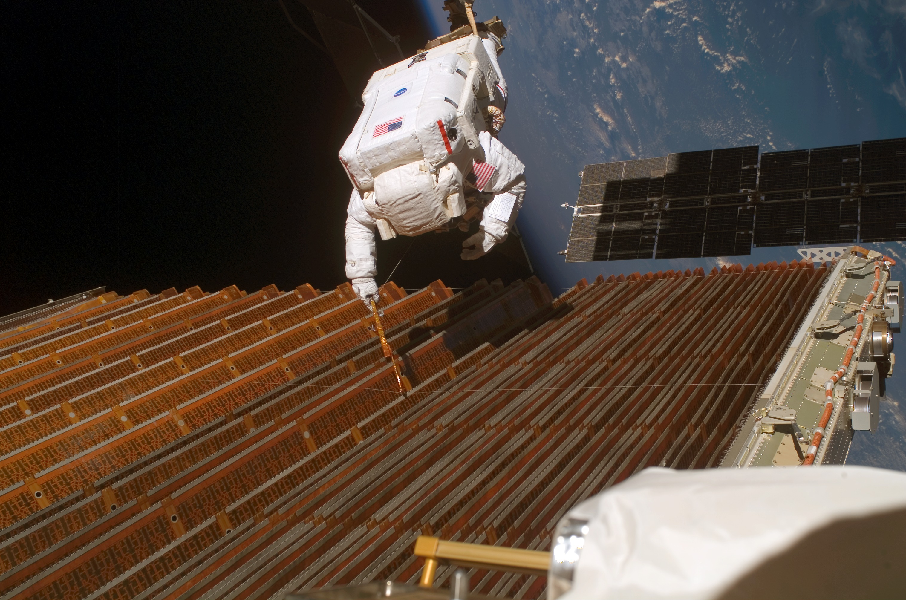 Astronaut Robert L. Curbeam Jr., STS-116 mission specialist, works with the port overhead solar array wing on the International Space Station's P6 truss during the mission's fourth session of extravehicular activity (EVA). European Space Agency (ESA) astronaut Christer Fuglesang (out of frame), mission specialist, worked in tandem with Curbeam, using specially prepared, tape-insulated tools, to guide the array wing neatly inside its blanket box during the 6-hour, 38-minute spacewalk.